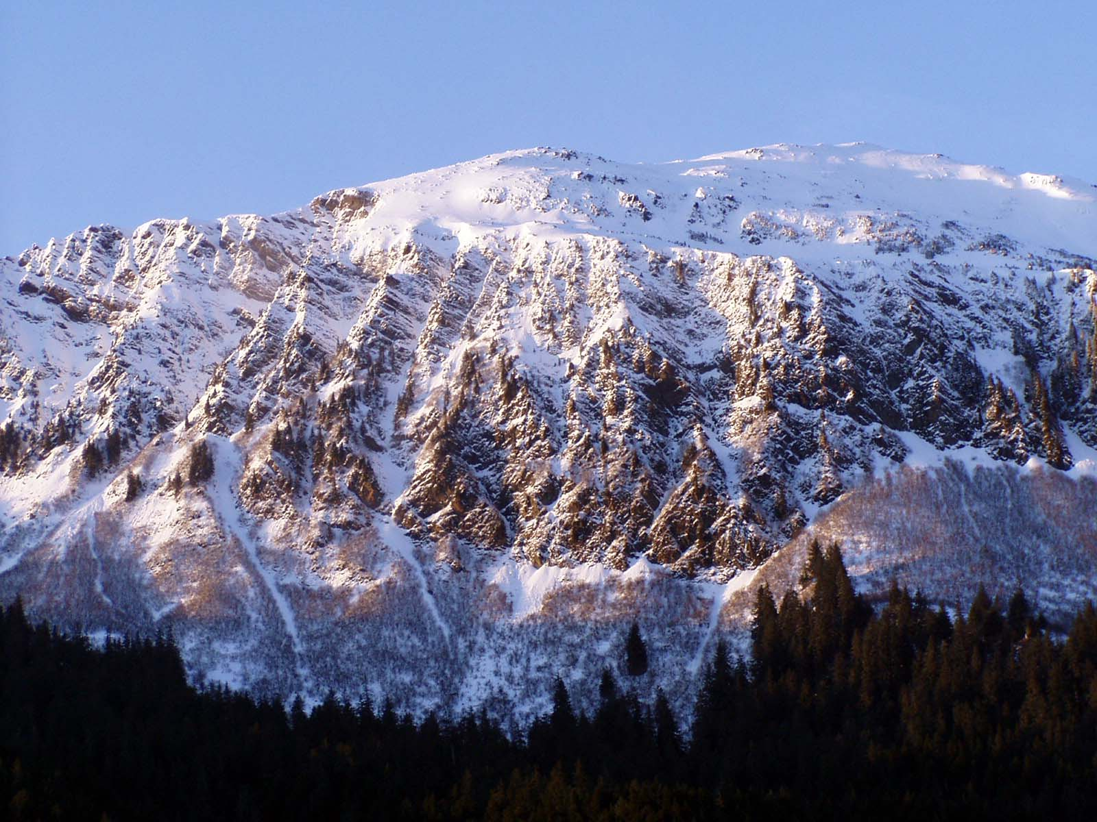 Heintzleman Ridge over Lemon Creek, Juneau, Alaska.